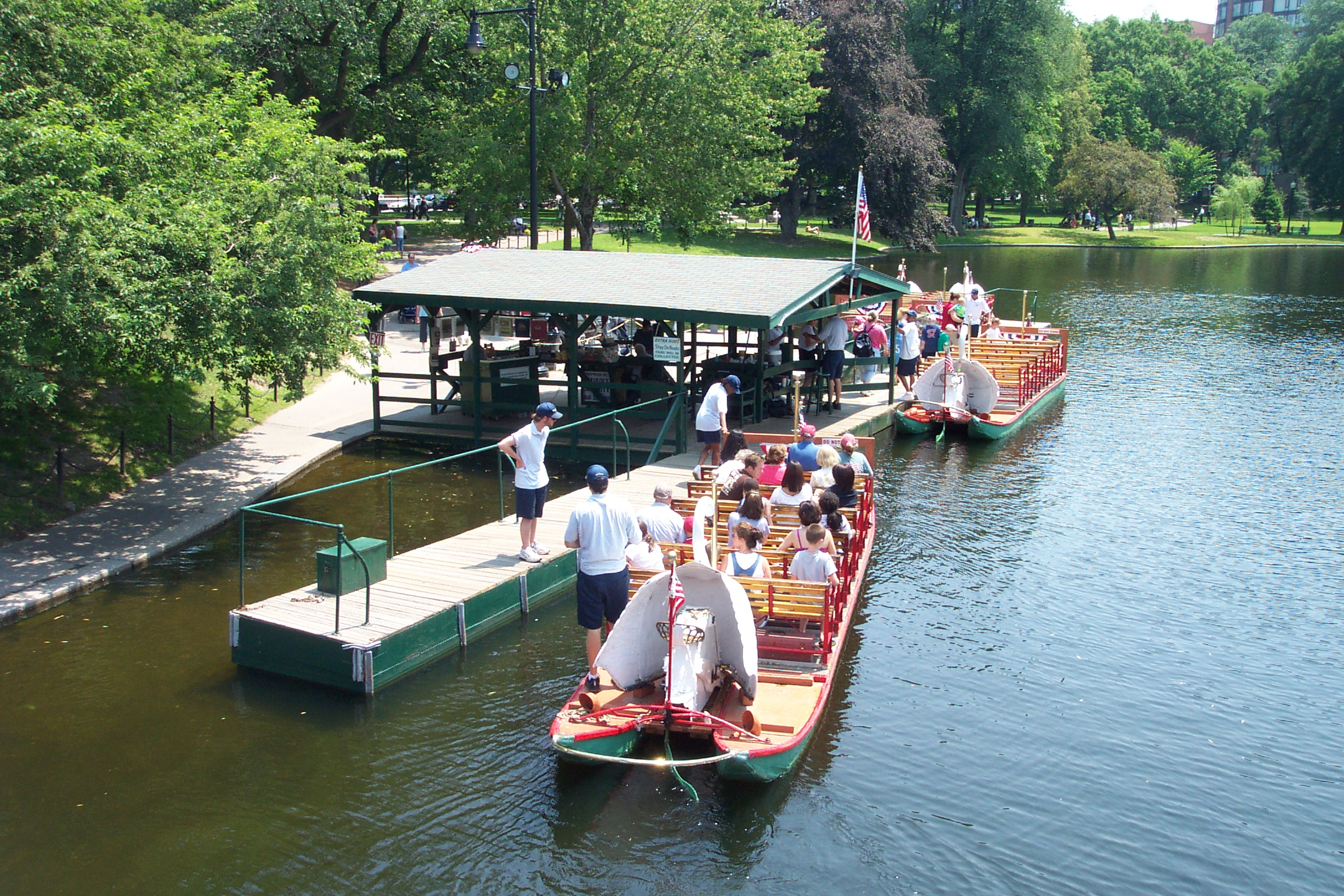 Dock for the Swan Boats in Boston Public Gardens, Boston, Massachusetts. For more information see the Wikipedia article Swan Boats (Boston, Massachusetts).